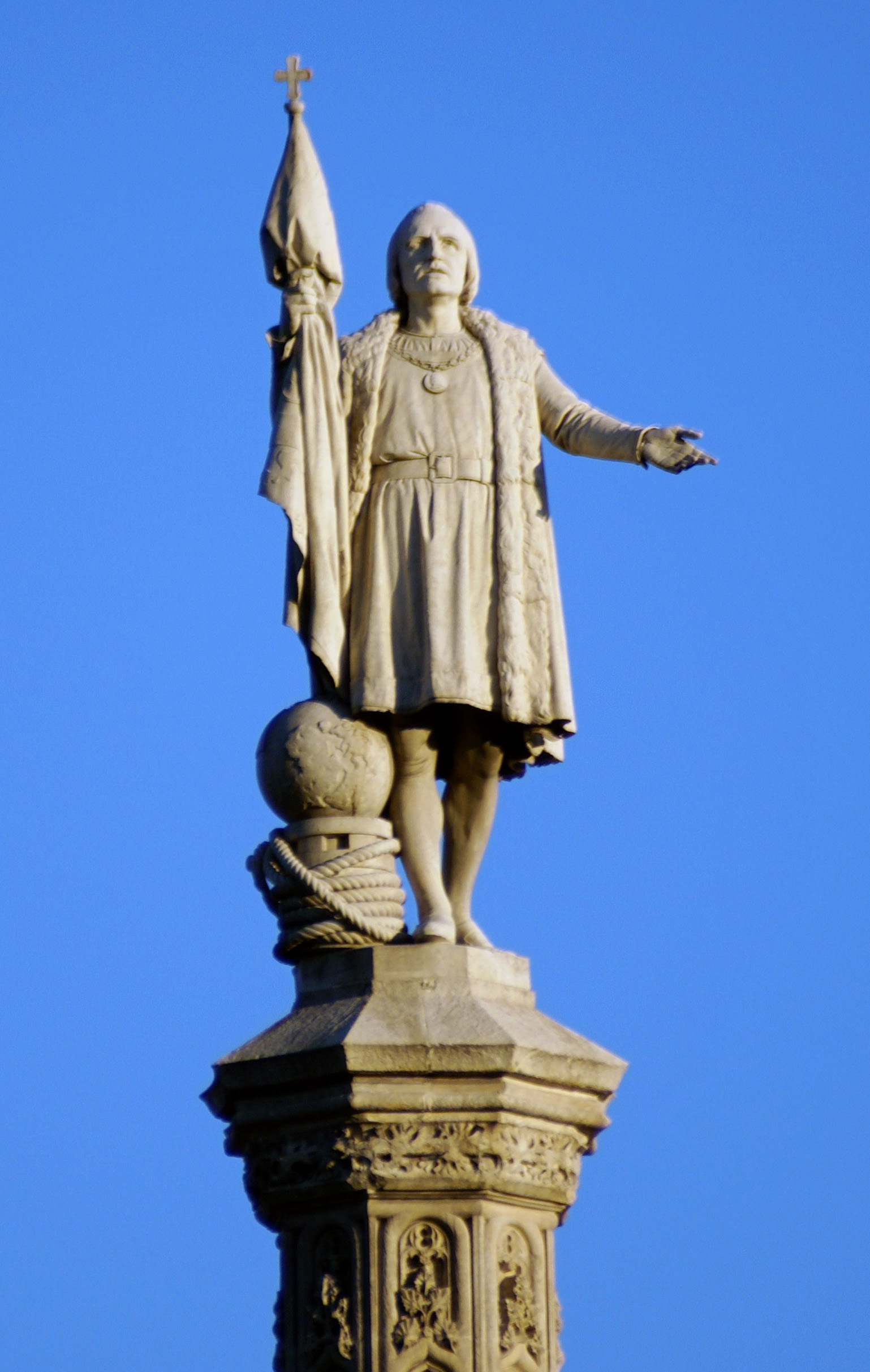 Detail of the Monument to Christopher Columbus at the Plaza de Colón ("Columbus Square") in Madrid (Spain), built between 1881 and 1885. It's a three metres high statue sculpted in Italian white marble by Jerónimo Suñol (1839–1902). Suñol is also the author of the Columbus statue at Central Park, New York City (U.S.A.).